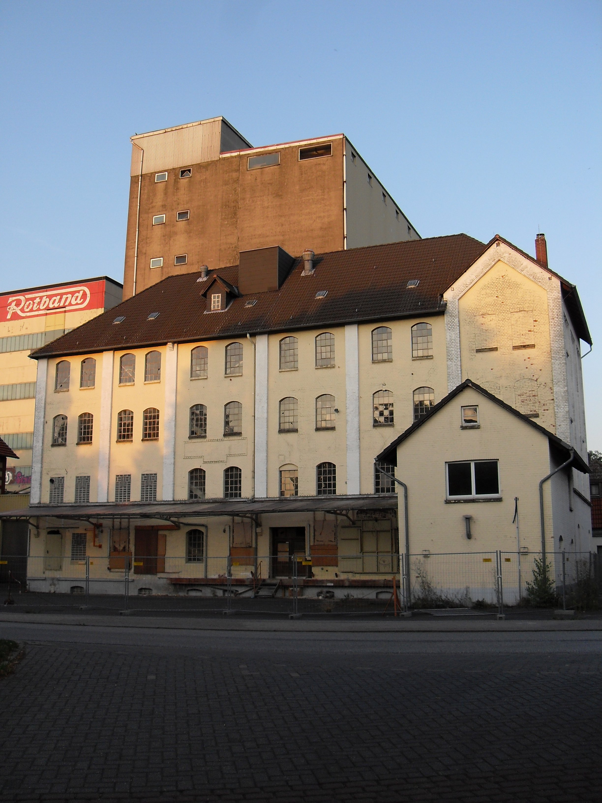 The abandoned flour mill in Sickte, Lower Saxony, Germany